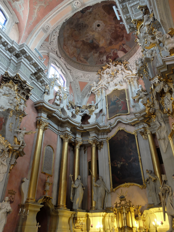 Church of St. Teresa in Vilnius